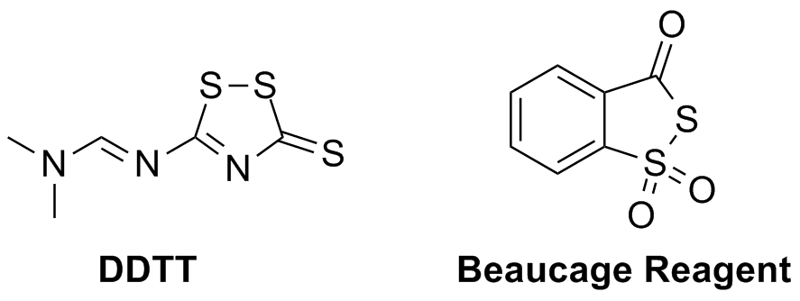 Sulfurization reagents